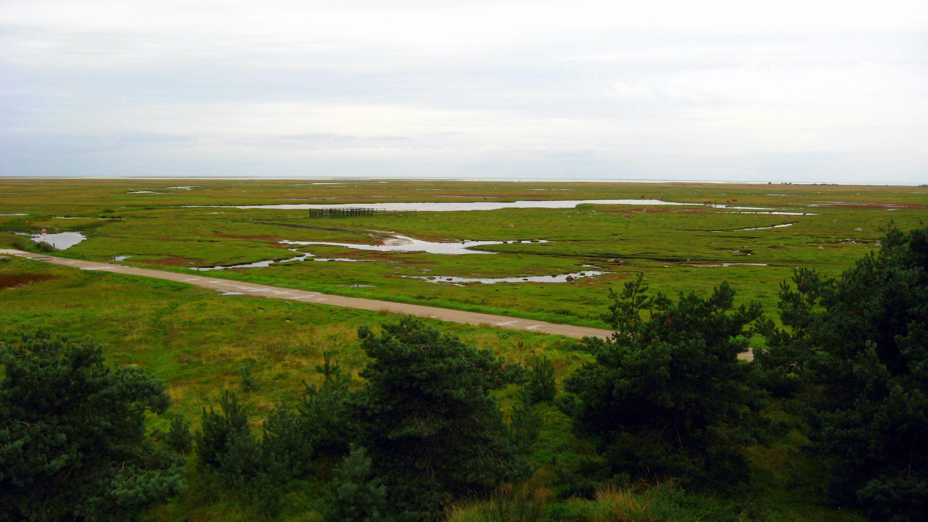 Læsø landscape (grass beach), Denmark